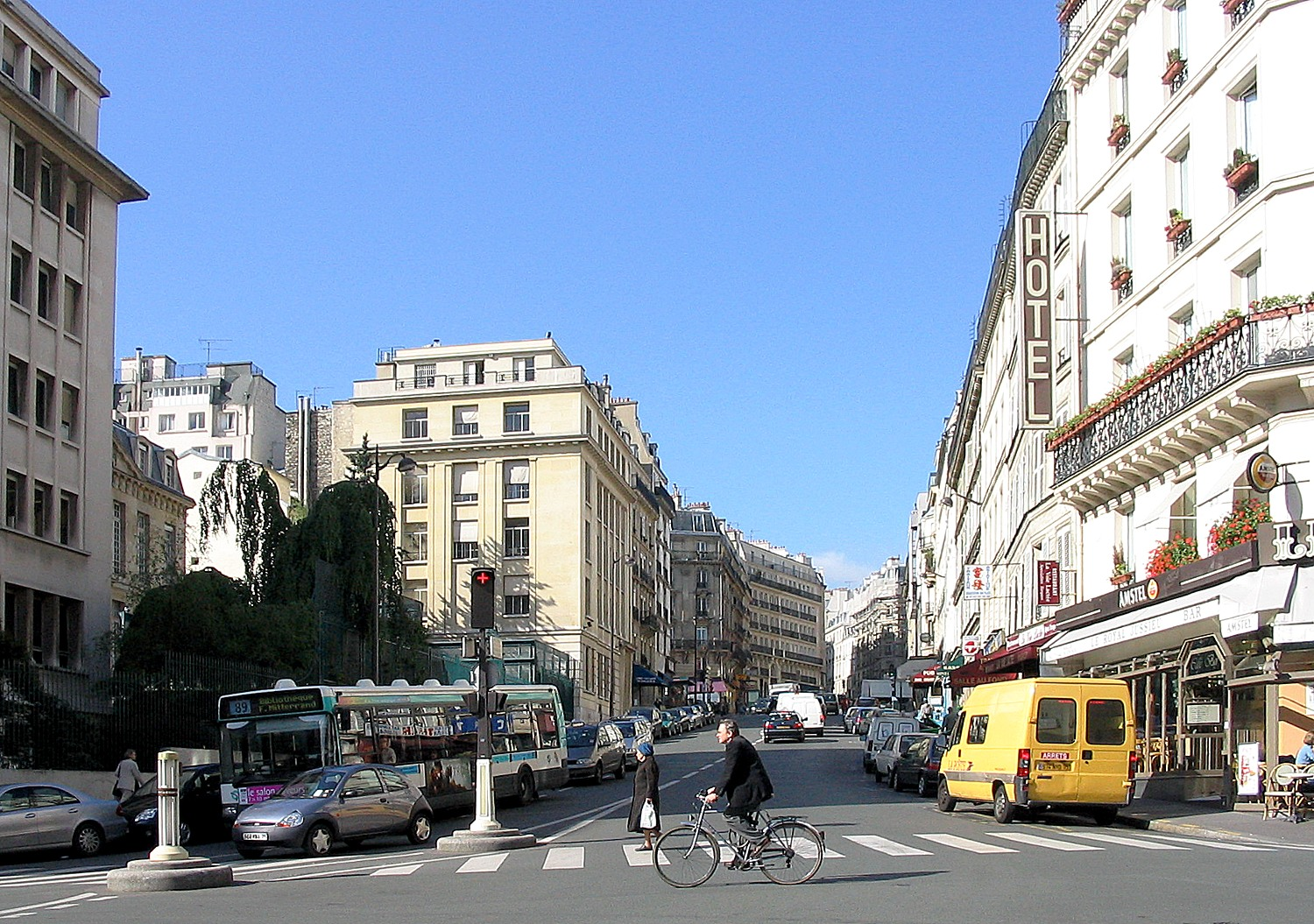 Cardinal-Lemoine street - Paris